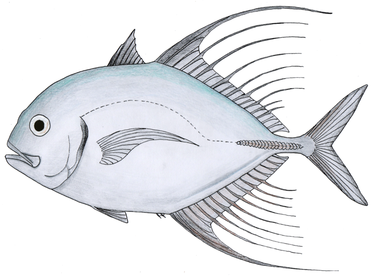 Hand drawn diagram of the bumpnose trevally, Carangoides hedladensis. Based on fishbase photograph